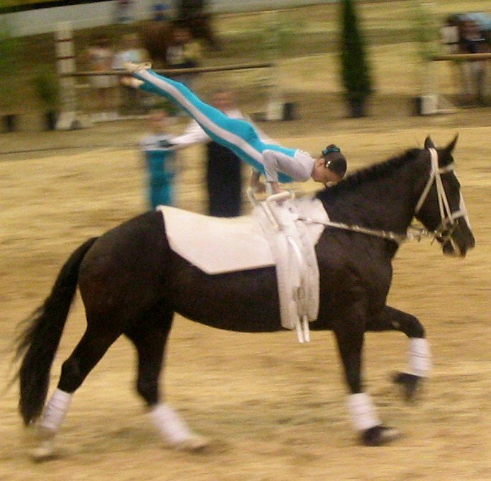 Equestrian vaulting